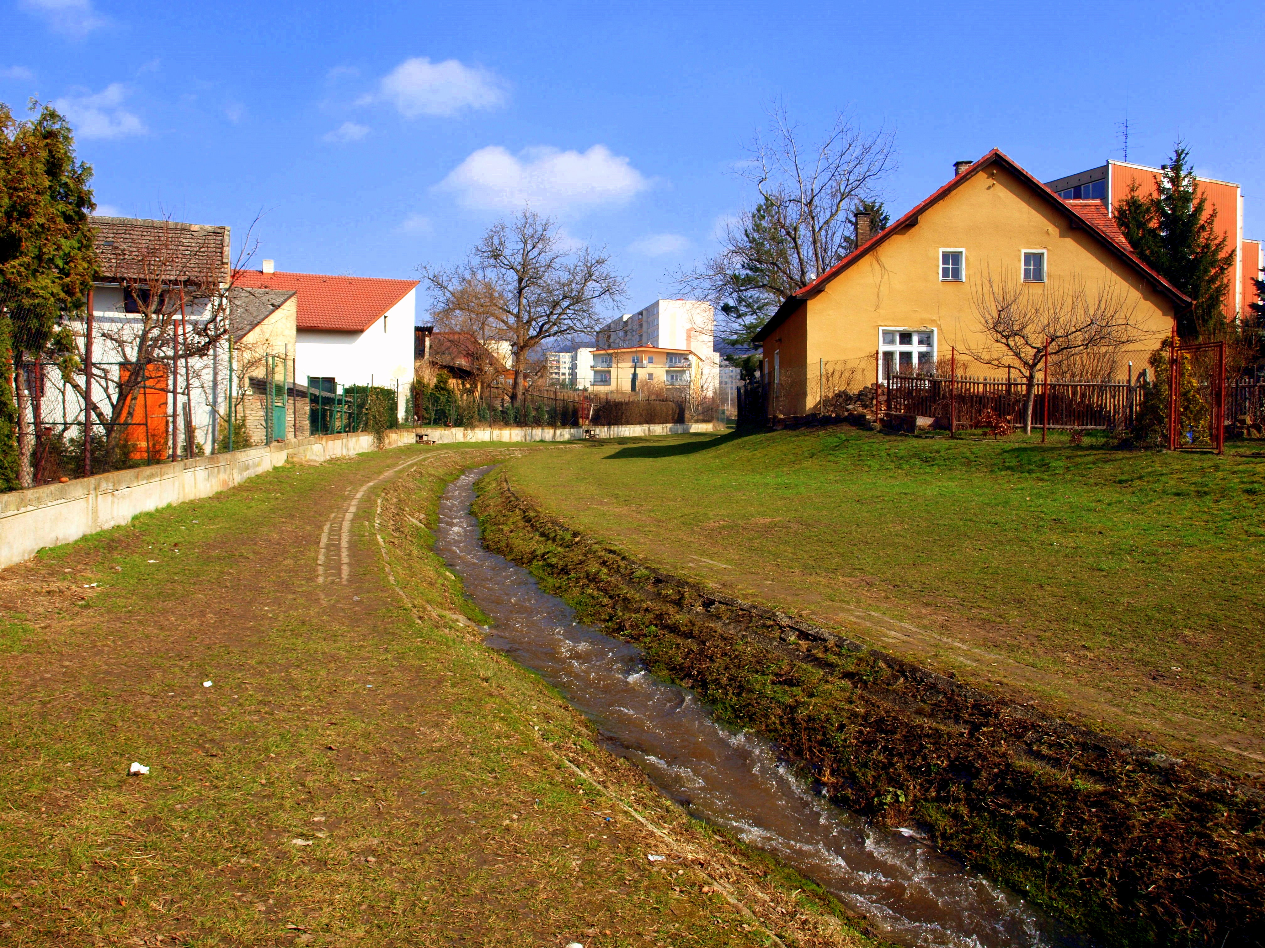 Pokratický stream